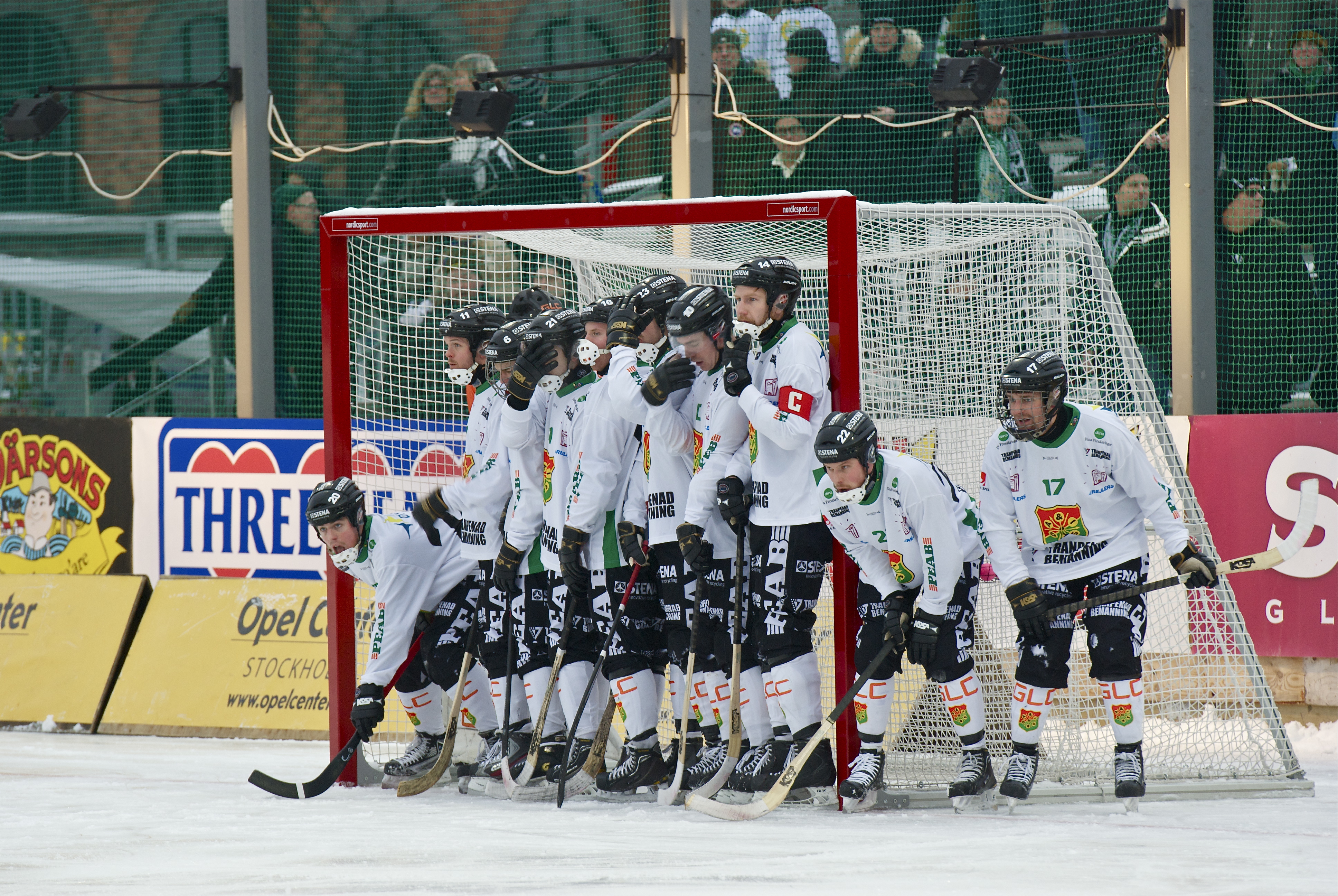 Corner-stroke in Bandy. When the ball has wholly crossed the goal line without a goal having been scored and having last been touched by a member of the defending team; awarded to attacking team. The defending team must locate themselves behind goal line and the attacking team must be situated outside the penalty area with everyone but the executor no closer to the shortline than 5 m. As soon as the corner is shot, the attackers may enter the penalty area and the defenders may rush to try to stop the ball.. Bandy match between Hammarby (Green) and GAIS (White) in Elitserien, Zinkendamms IP (Stockholm) 2012-02-11.